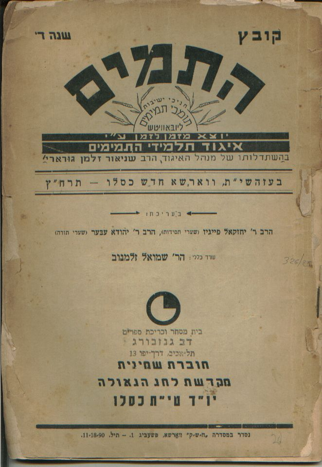 Hatamaim, Warsaw 1938, Chabad magazine